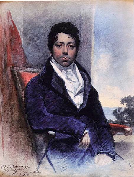 Watercolour and pencil by the artist J.E.T. Robinson of the actor Joseph Grimaldi.